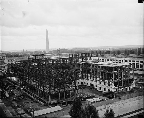 Eccles Board building under construction: 10/01/1936 Photo Credit: Harris & Ewing